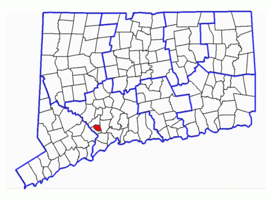 Subject: Map of Connecticut Townships with Ansonia highlighted. Derived from sub-county SVG map of Connecticut at Libre Map Project using Adobe SVG viewer and Gimp 2.2.1.3